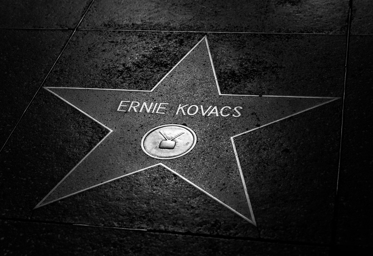 Television pioneer Ernie Kovacs's star on the Hollywood Walk of Fame.